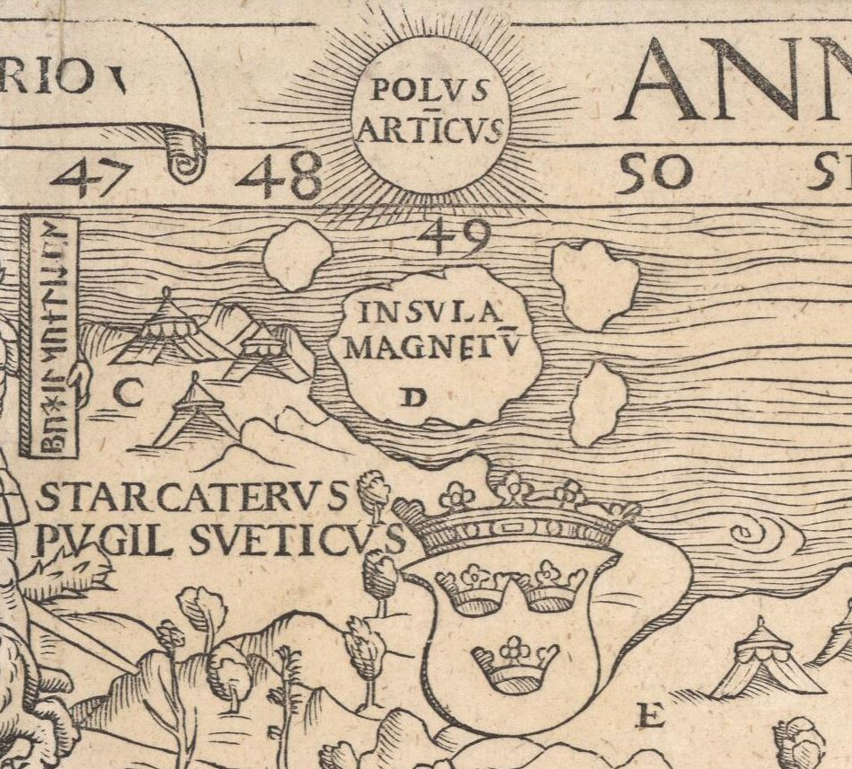 Insula Magnetum onthe map Carta Marina